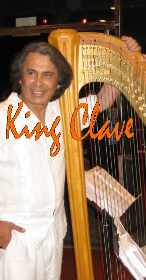 King Clave